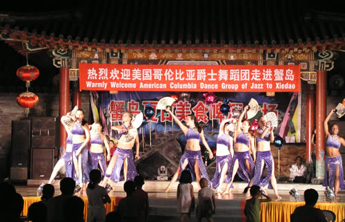 This is a photo from the Columbia City Jazz Dance Company's tour of China during the summer of 2006.